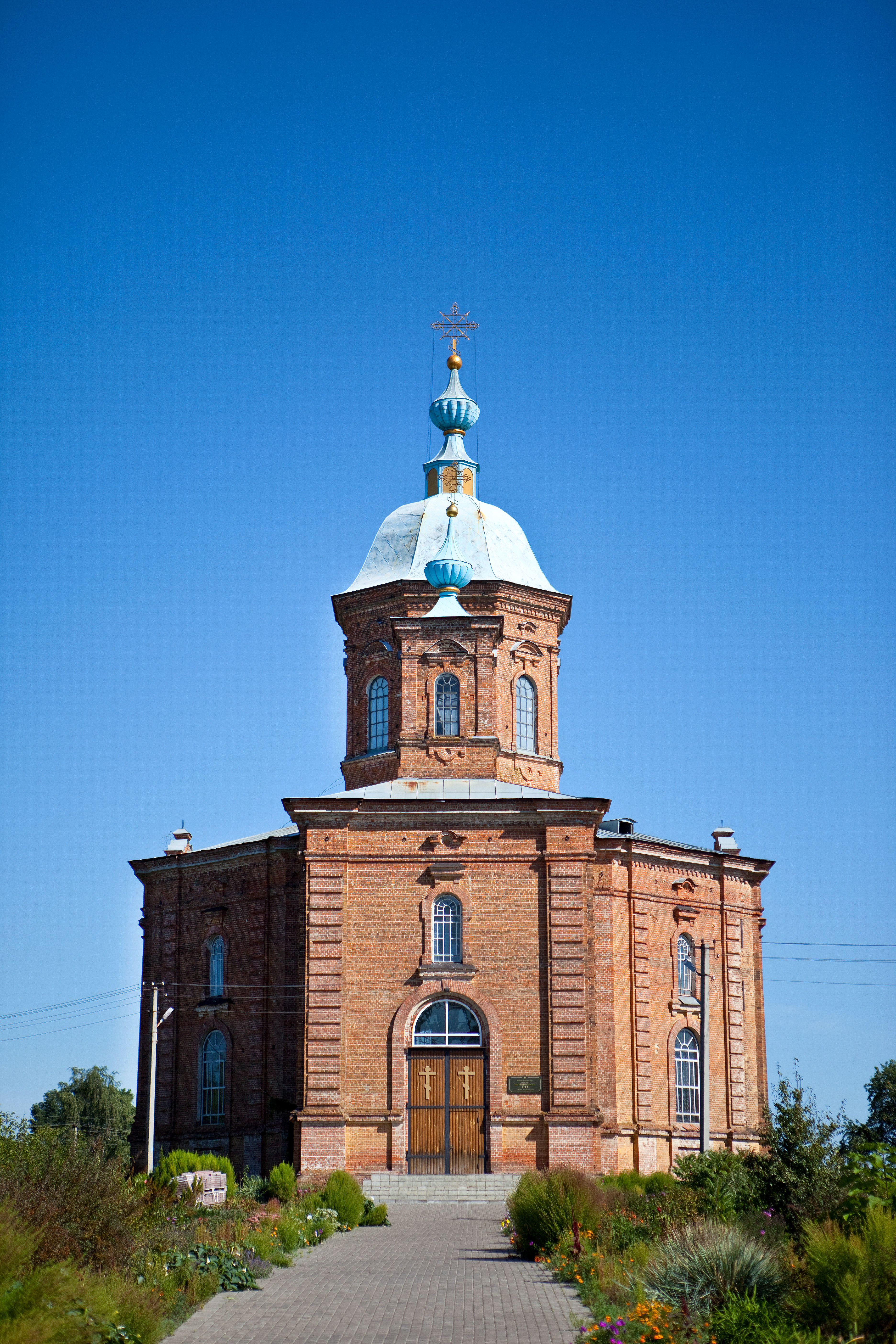 Transfiguration church in Vorozhba, Sumy Oblast, Ukraine